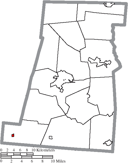 Map of the municipal and township boundaries of Madison County, Ohio, United States, as of the 2000 census, with the location of the village of South Solon highlighted. Township borders are shown only in unincorporated areas in order to differentiate incorporated and unincorporated areas more clearly.